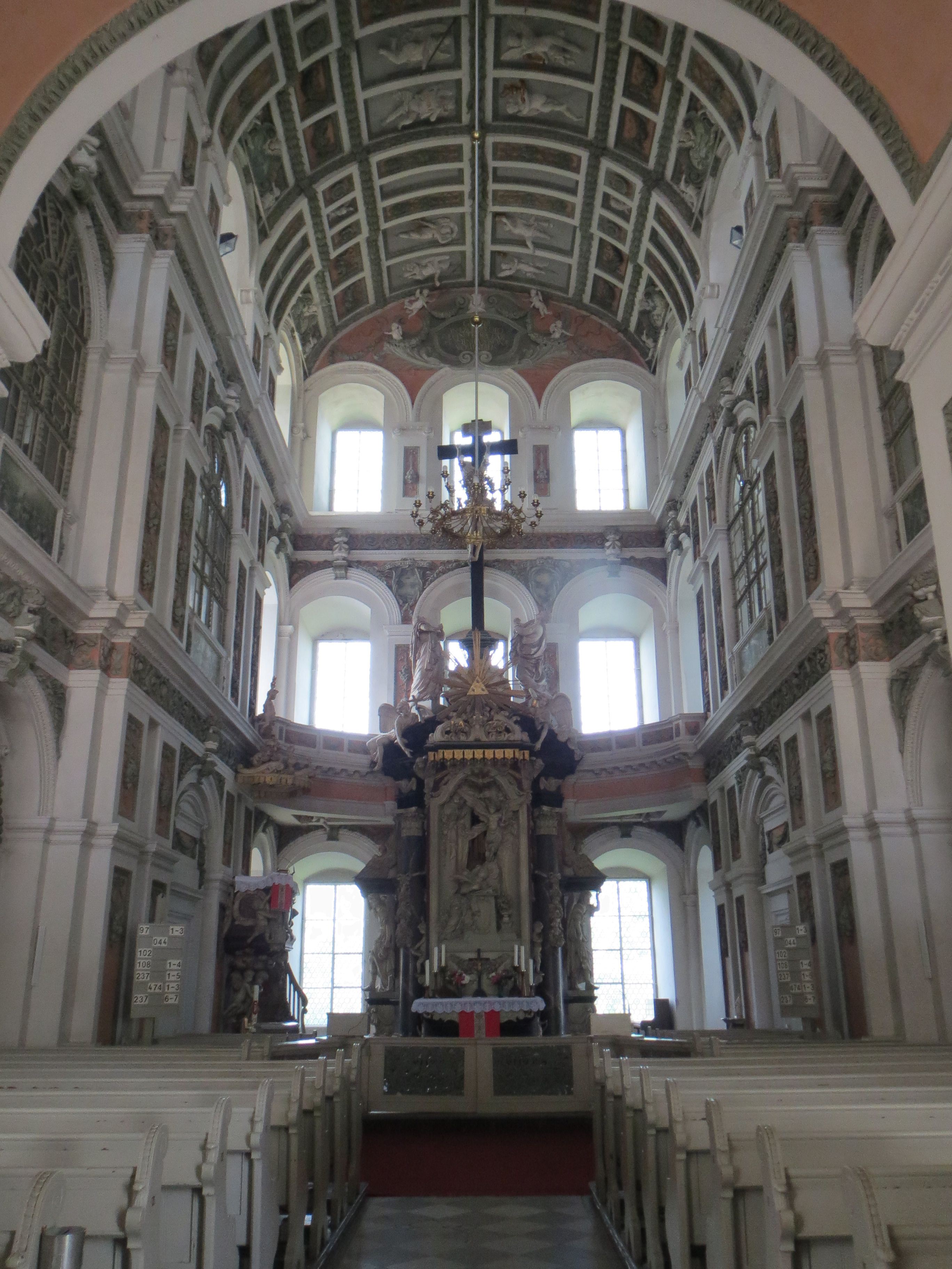 Schlosskirche Weissenfels